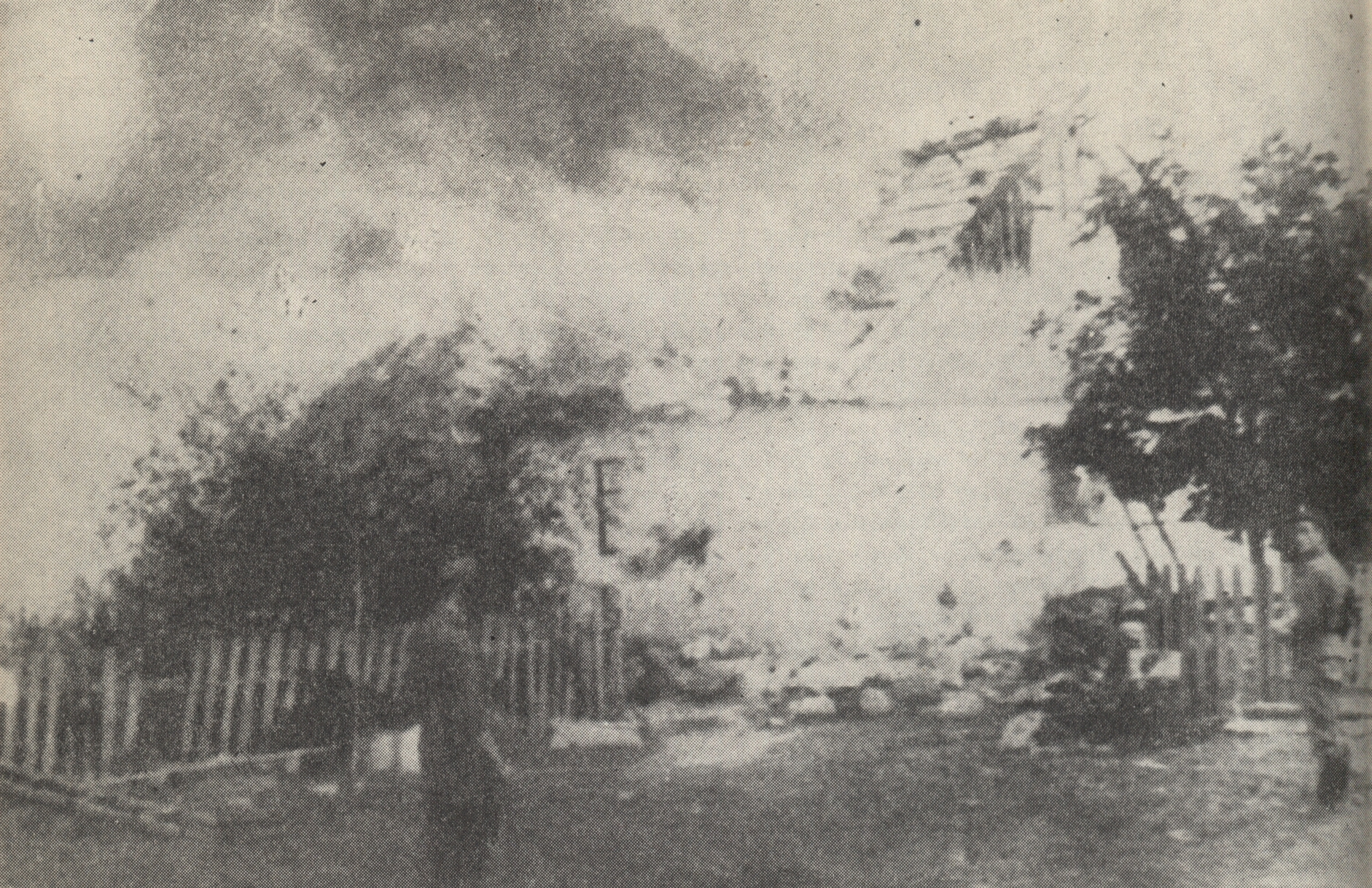 Polish village in Kielce region set on fire by German occupants.